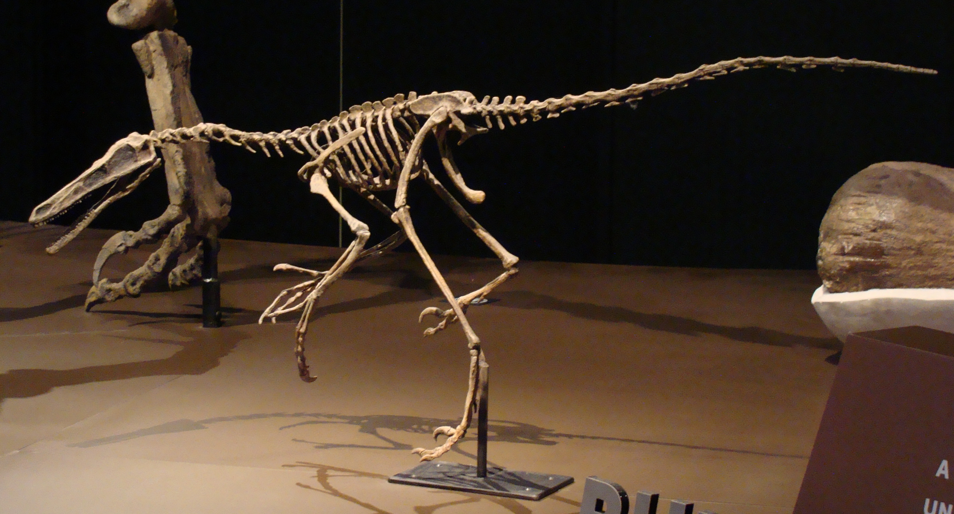 Buitreraptor displayed at the Royal Ontario Museum, Toronto, Canada.